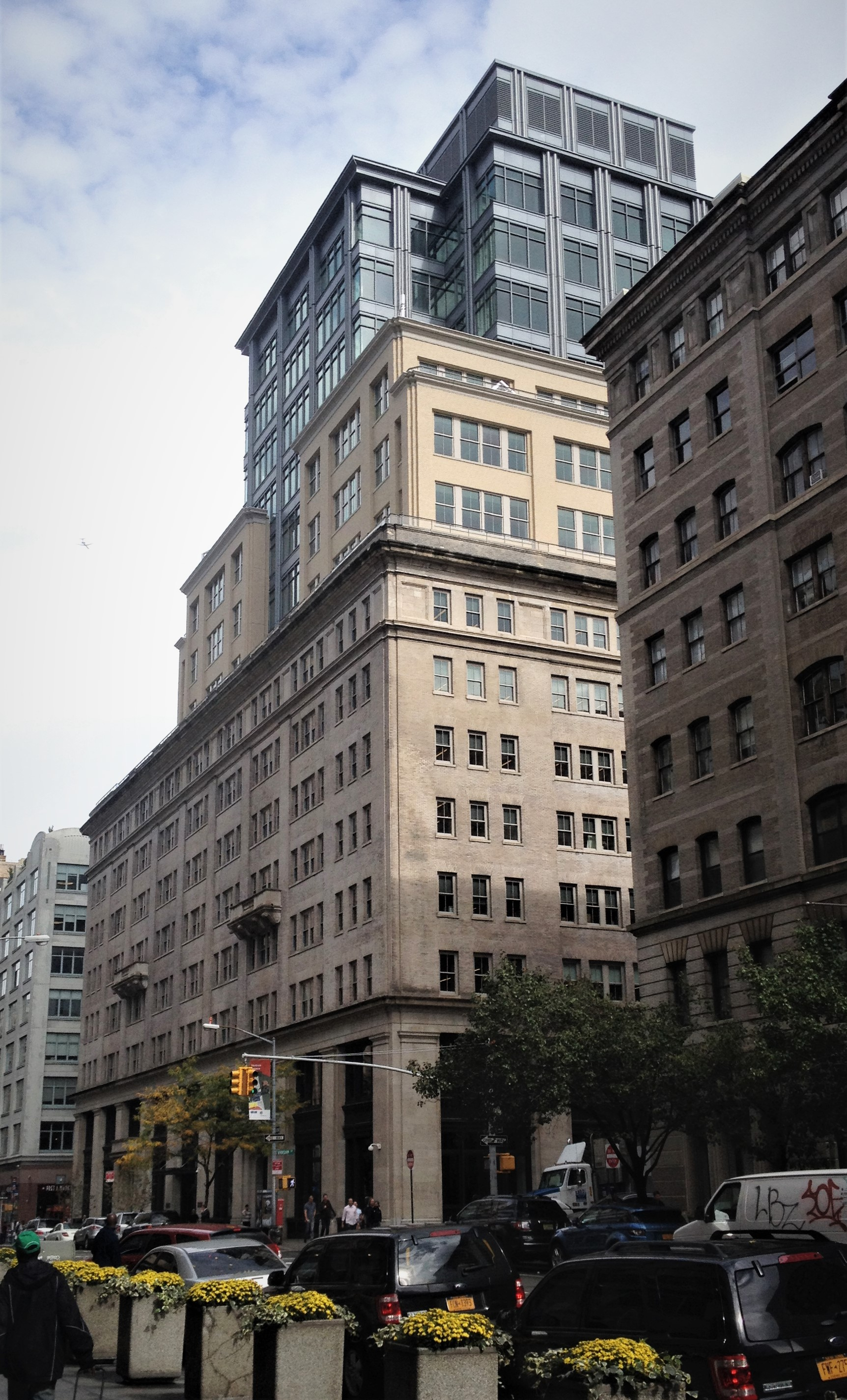 Street View of 330 Hudson on Sept. 2014